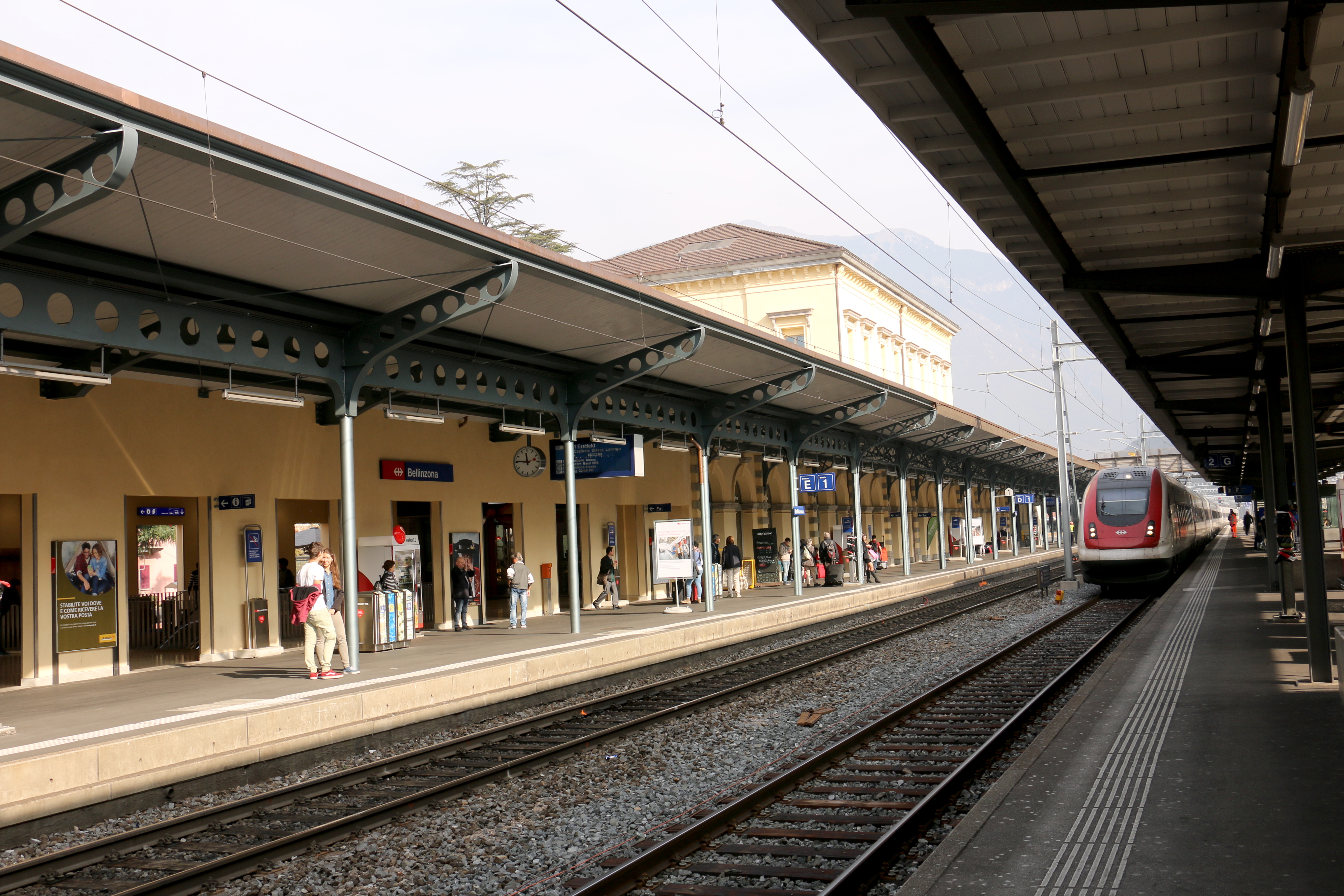 Railway Station Bellinzoina (2017)